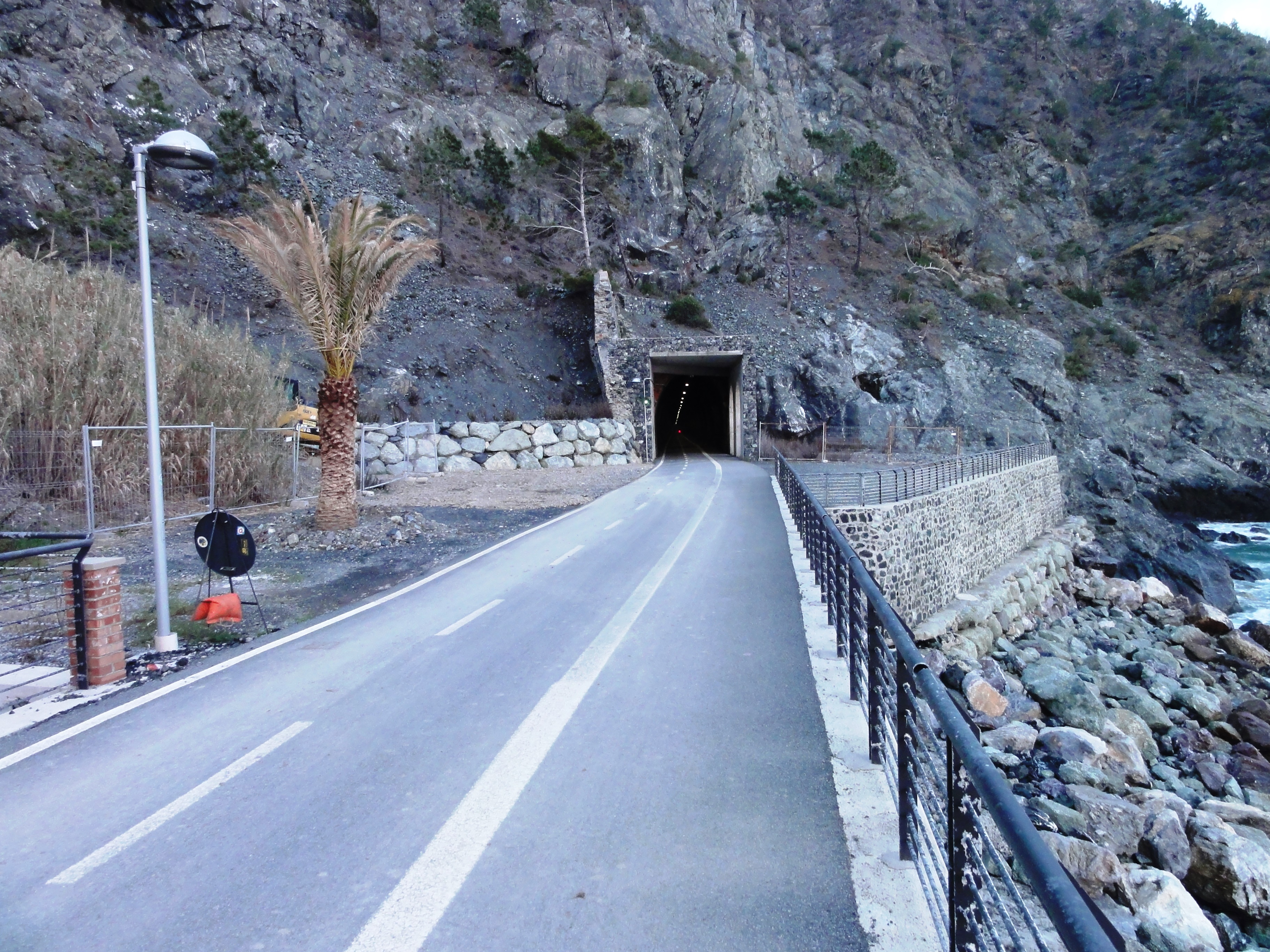 Cycling path and walkway between Bonassola and Levanto. Built on the old railway track.